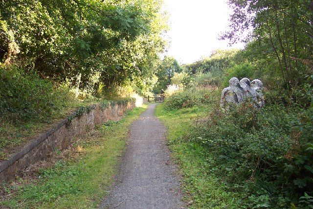 Dunsbear Halt, Winswell, Devon, England. Dunsbear Halt was the most used of all the halts on the Torrington to Halwill line (now part of the Tarka Trail cycle route), largely because it was the closest to one of the china clay works and attracted a certain amount of commuter traffic. The sculpture on the right was made of tiles by local schoolchildren.